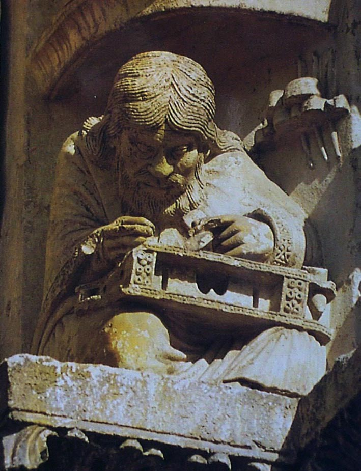 Sculpture of Pythagoras within the tympanum at the right bay of the royal portal of Chartres Cathedral, situated on top of the middle column of the right jamb.